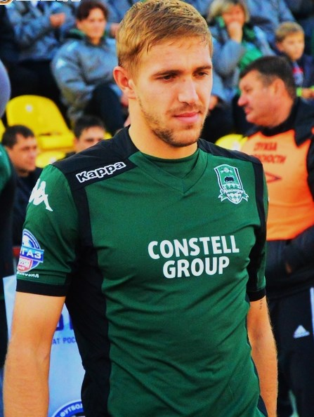 Yuri Gazinskiy